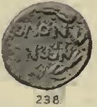 Greek coins and their parent cities (1902) Author: Ward, John, 1832-1912; Hill, George Francis, Sir, 1867-1948 Subject: Coins, Greek; Numismatics, Greek; Greece -- Description, geography; Italy -- Description and travel; Turkey -- Description and travel Publisher: London : Murray Possible copyright status: NOT_IN_COPYRIGHT Language: English Call number: AKB-0671 Digitizing sponsor: MSN Book contributor: Robarts - University of Toronto Collection: toronto Scanfactors: 7